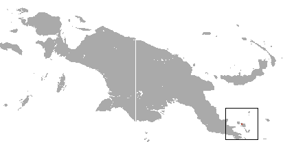 Tate's Triok (Dactylopsila tatei) range